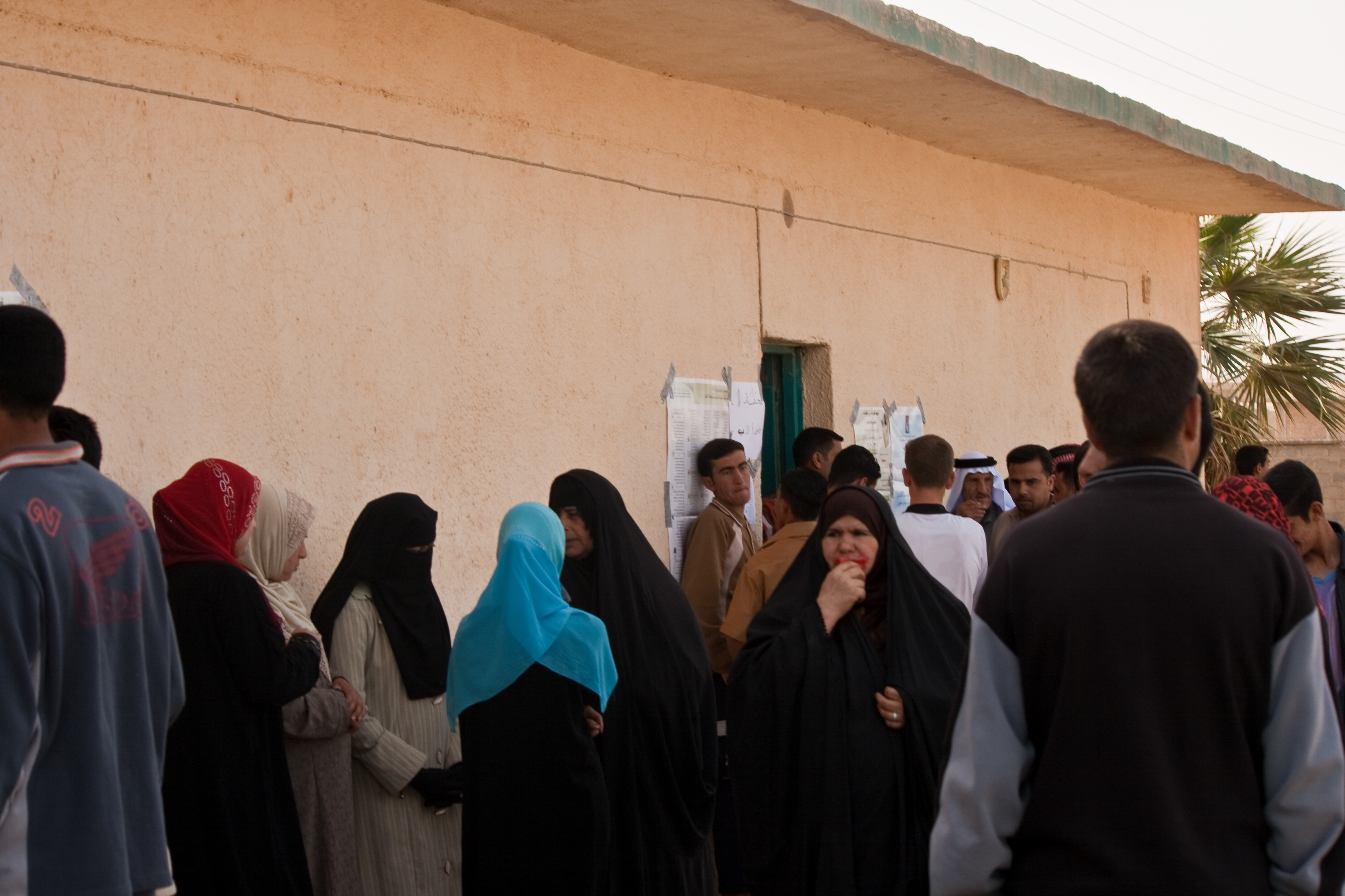 Women wait outside a voting room.